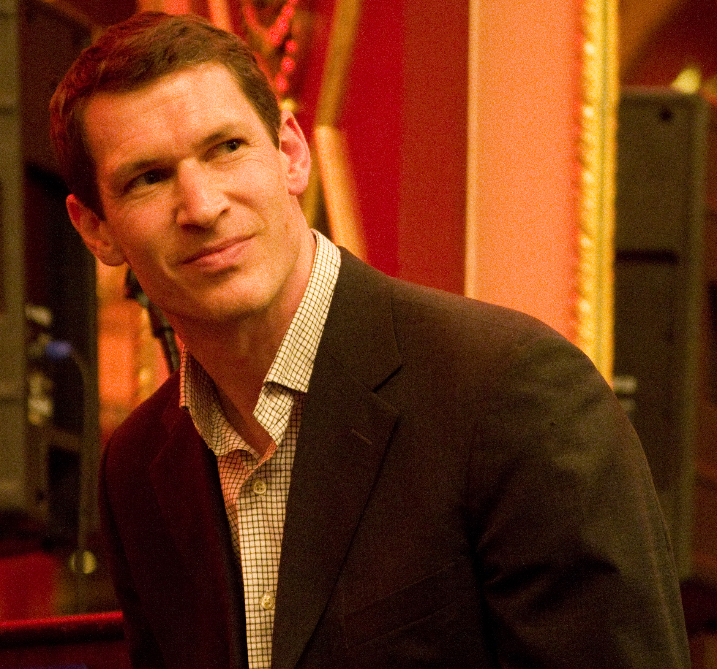 Tim Hetherington at a Hudson Union Society event with Sebastian Junger, co-director of the Oscar-nominated, Sundance Film Festival Grand Jury Prize-winning documentary, Restrepo.